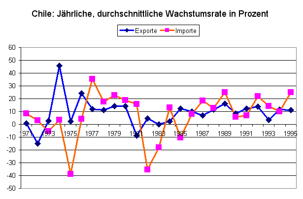 Chile: imports and exports, annual average rate of growth in percent Source: United Nations Statistics Division. Imports and Exports [1]